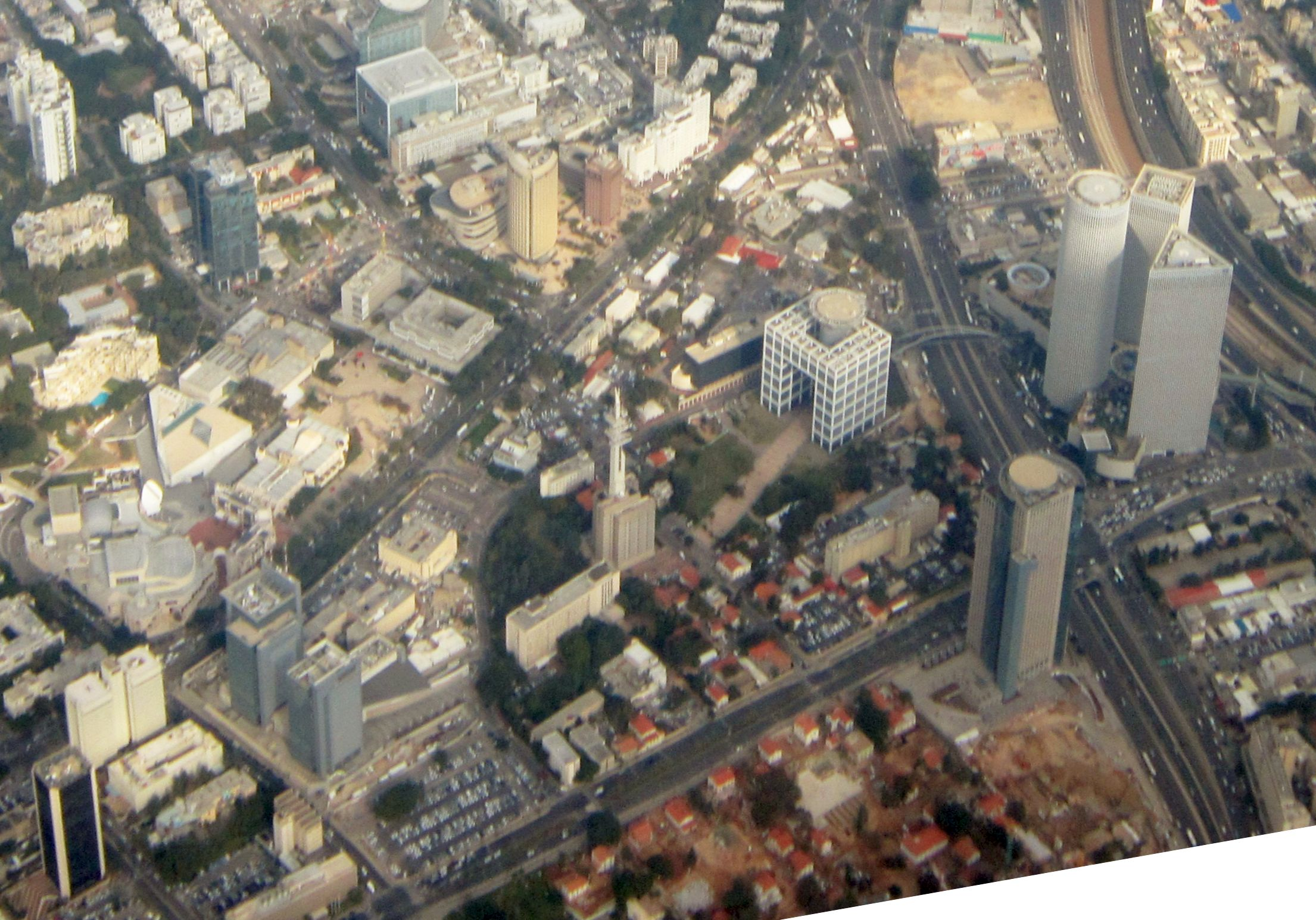 Aerial view of HaKirya, Kirya Tower and Azrieli Center towers